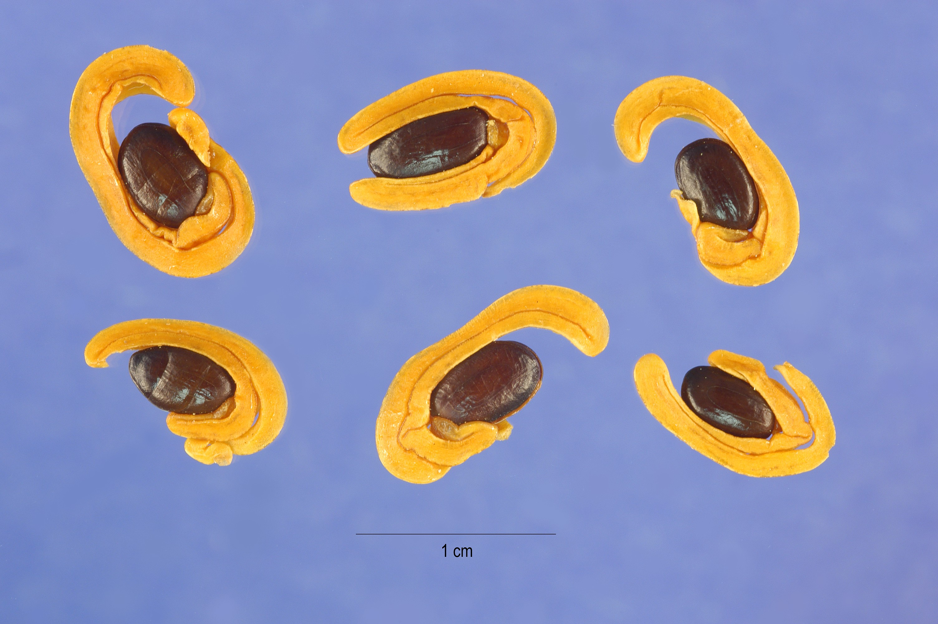 Cyclops Acacia. Seeds.